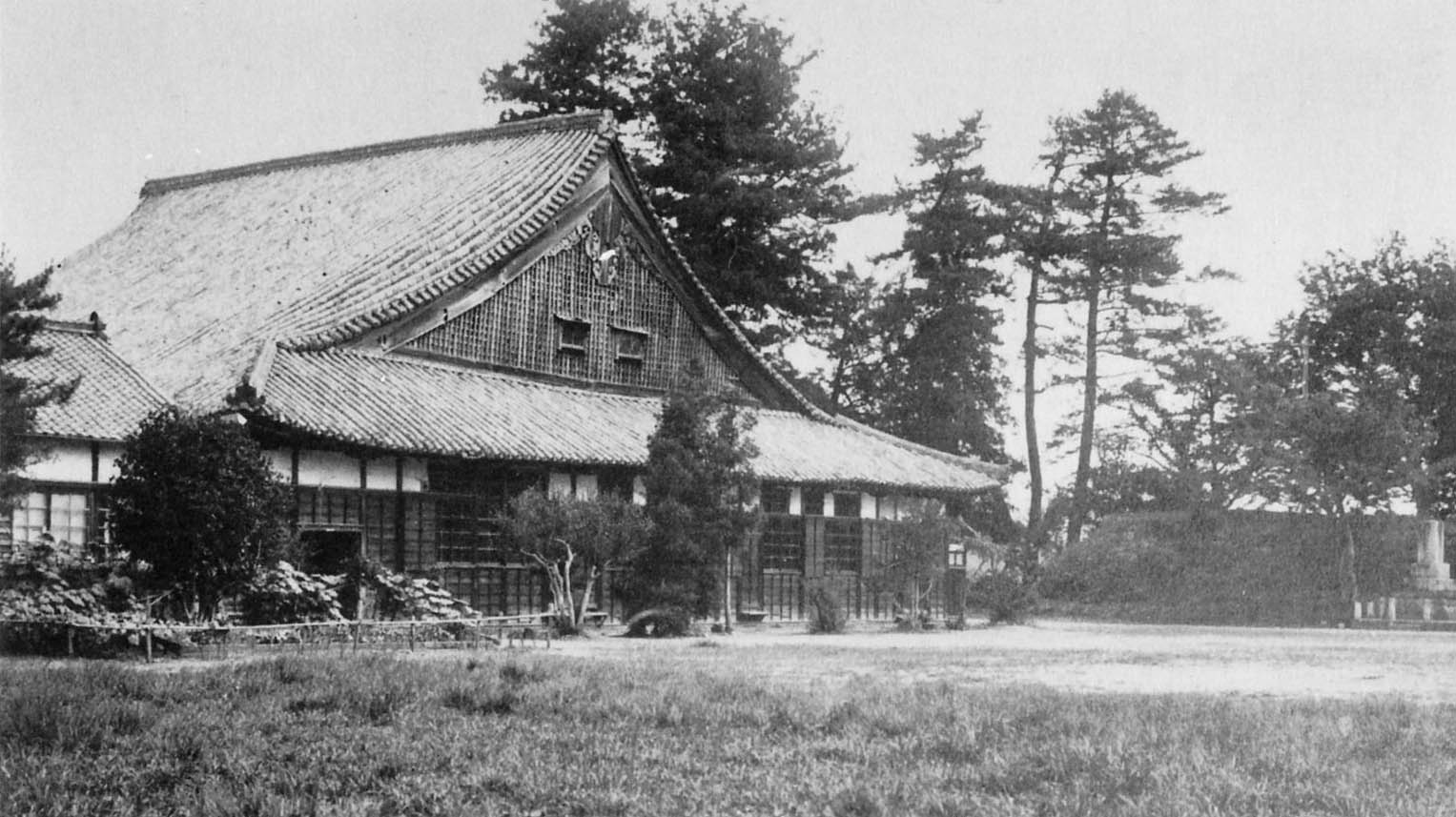 大書院